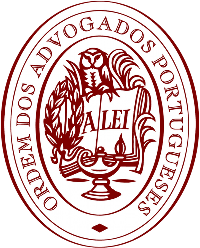 Logo of the Order of Lawyers (Ordem dos Advogados), the Portuguese Bar Association.